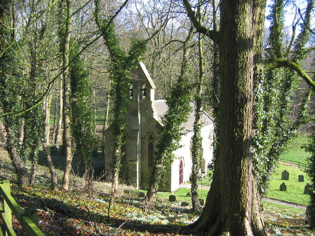 St. Ethelburga's Church, Great Givendale, East Riding of Yorkshire, England.View east to the church which is near the north edge of the grid square. This is a typical view of this lovely area.